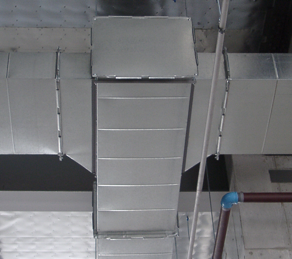 air-duct-end closed temporarily for the extension in the future.